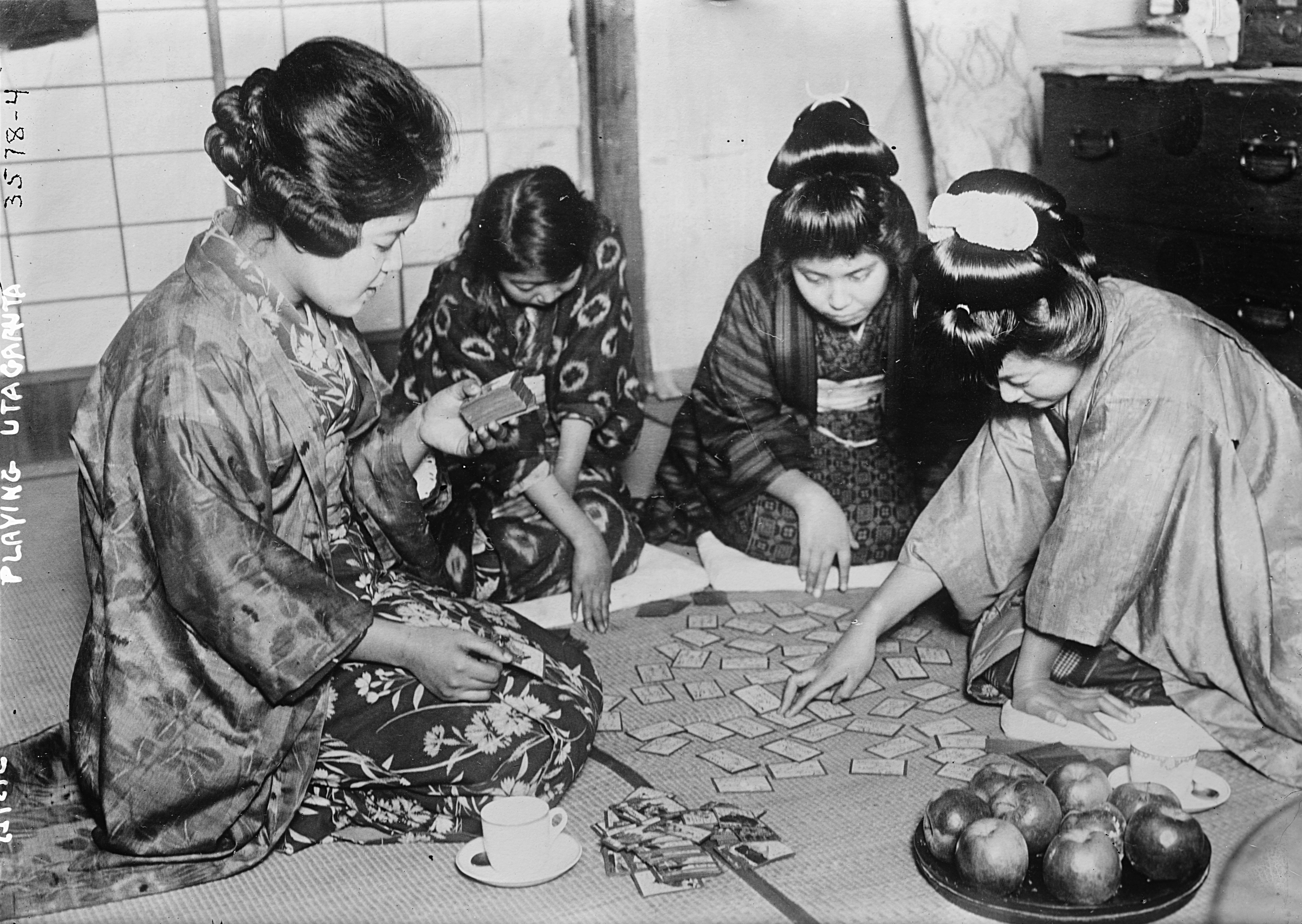 Group of women in traditional dress playing Uta garuta.